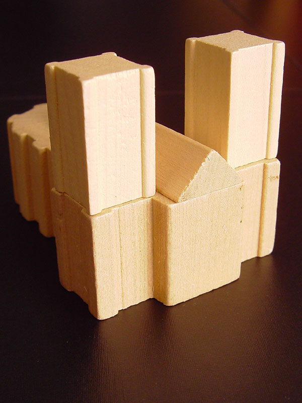 Cathedral tiles for parlor game The Pillars of the Earth.